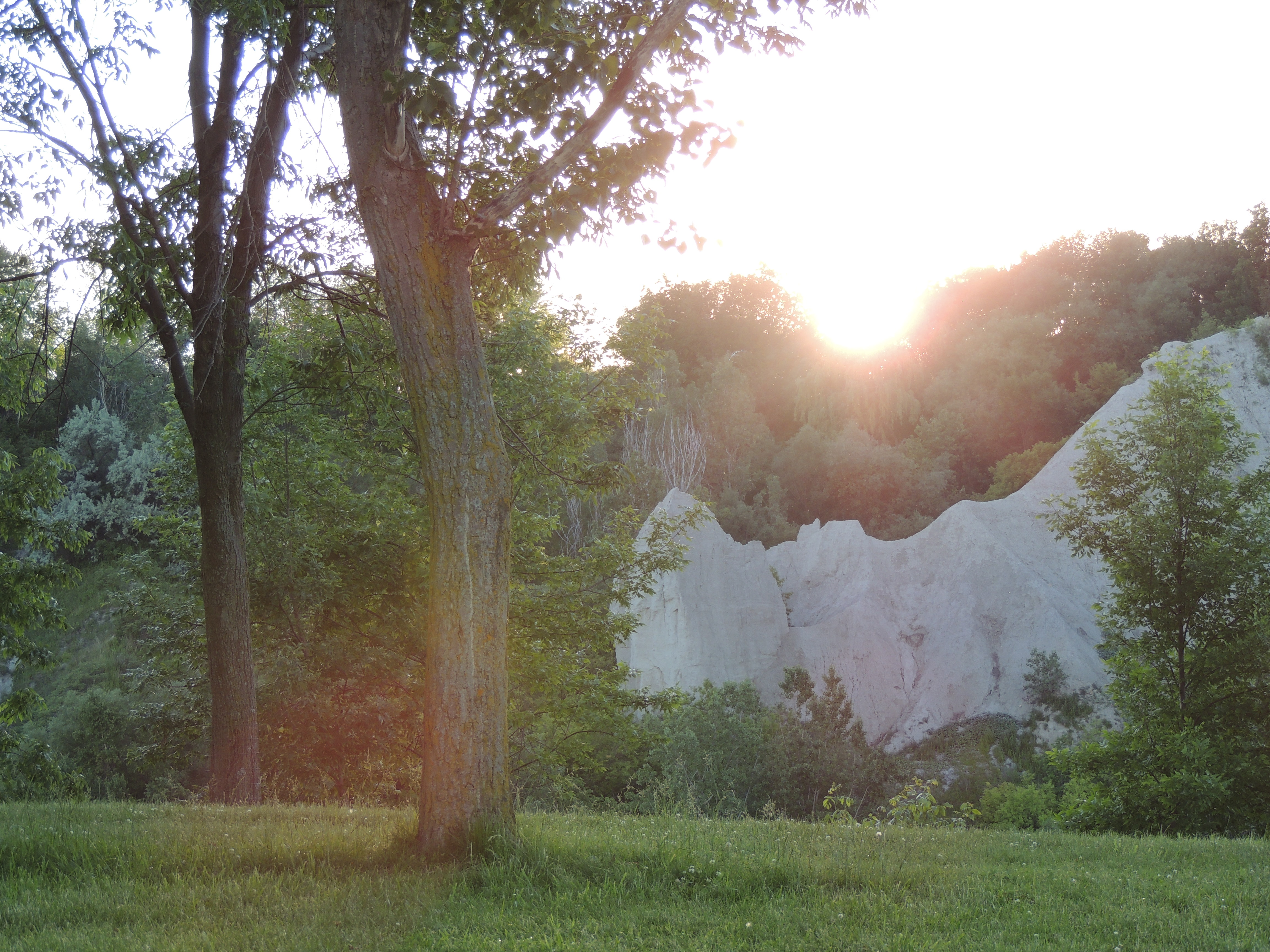 Photo taken with a Nikon Coolpix P510.